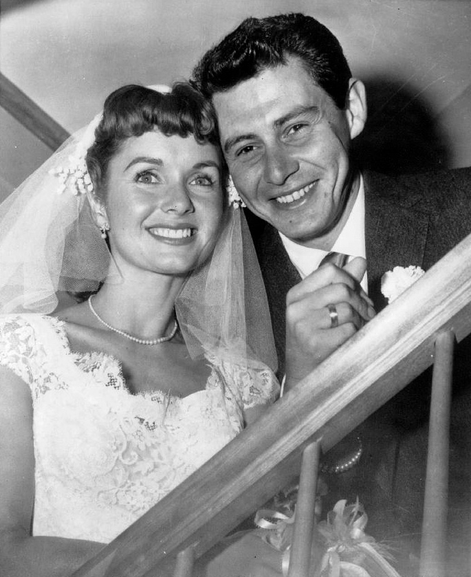 Press photo of Debbie Reynolds and Eddie Fisher at their wedding.